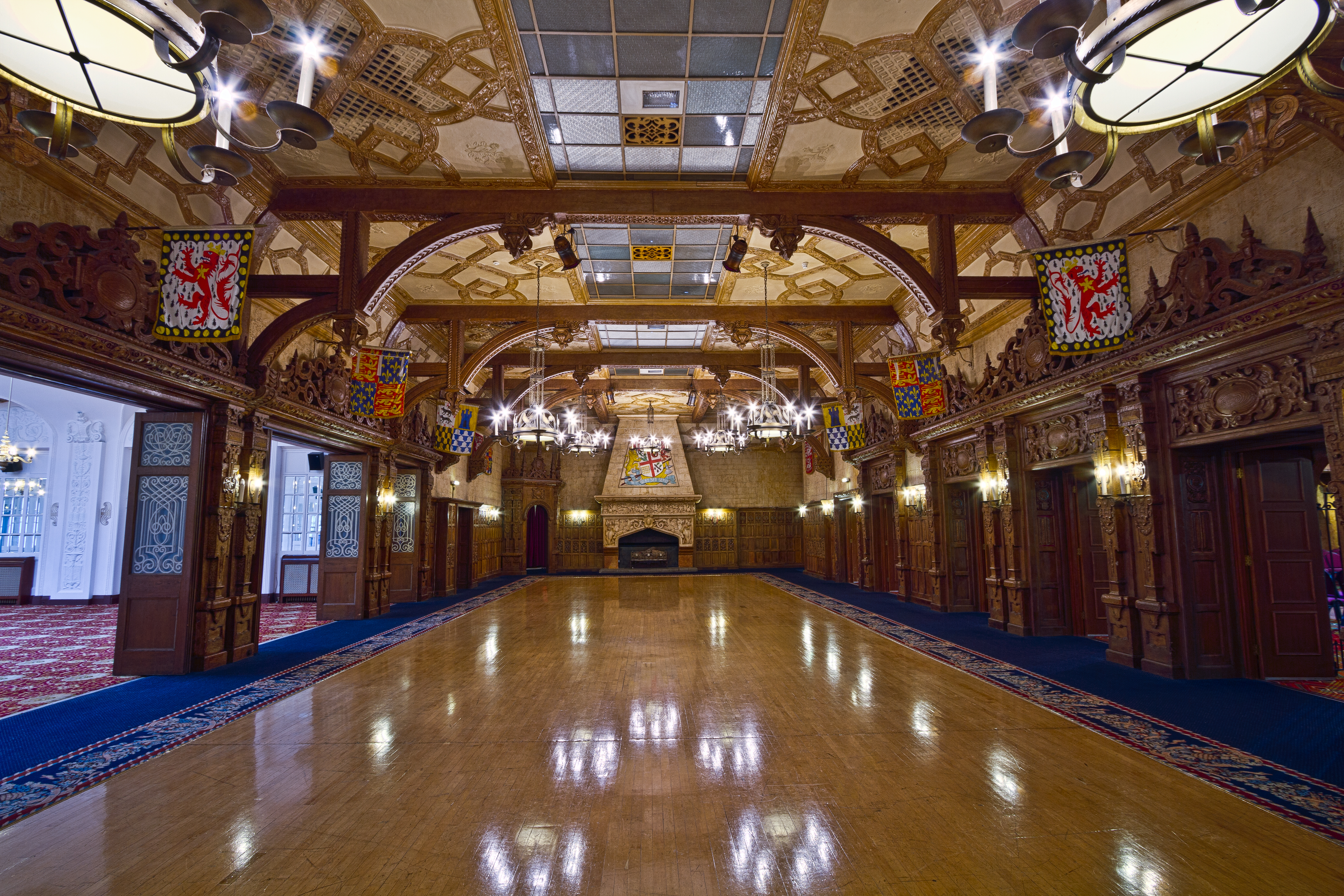 Here is an hdr photograph taken from the Baronial Hall inside the Winter Gardens. Located in Blackpool, Lancashire, England, UK.